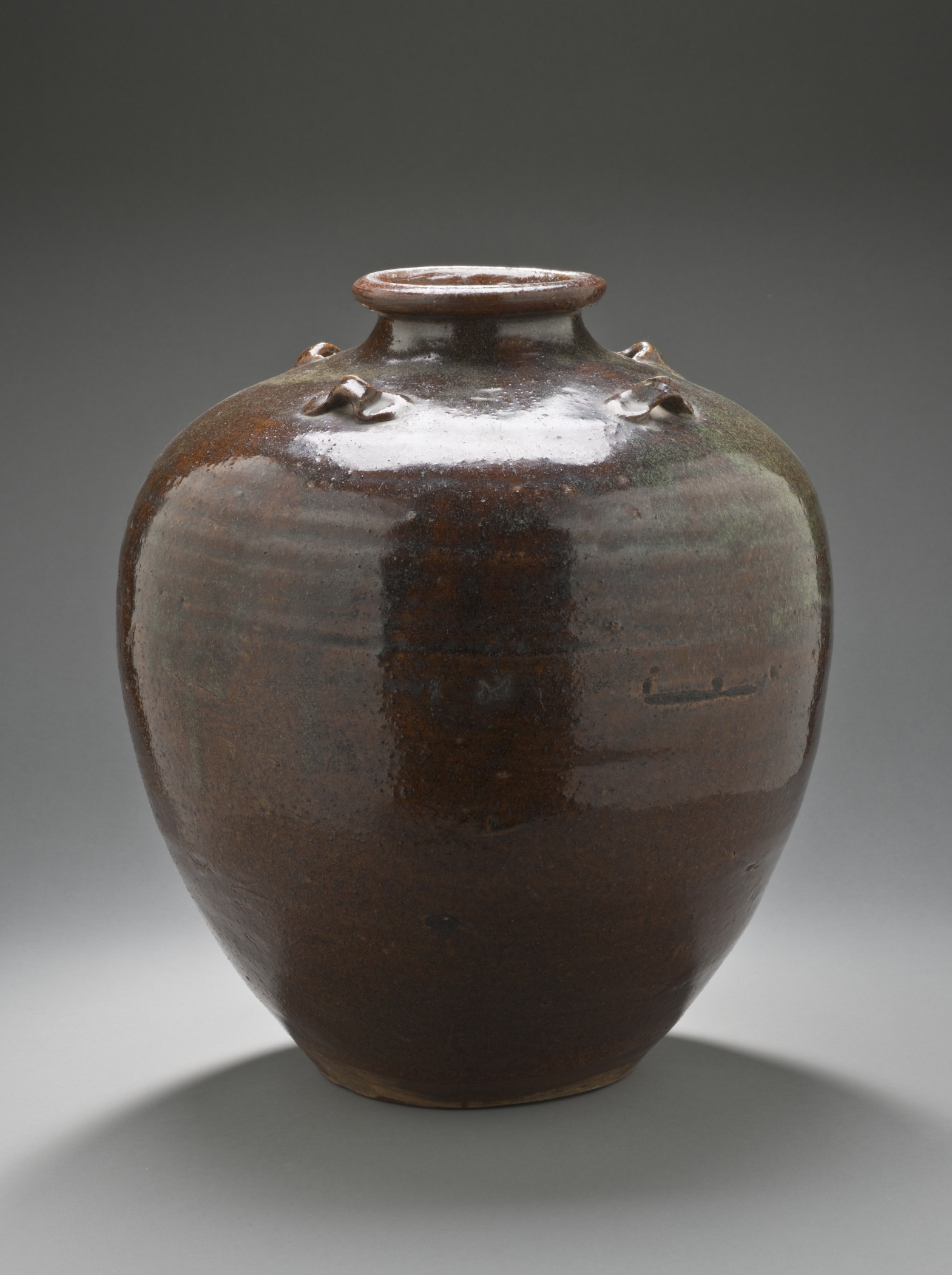 Japan or China, circa 16th-18th century Furnishings; Serviceware Stoneware with brown glaze Height: 15 1/2 in. (39.37 cm); Diameter: 13 5/8 in. (34.61 cm); Mouth diameter: 12.3 cm; Food diameter: 16.0 cm. Gift of James D. and Veronica H. Roorda (M.2007.226.23) Japanese Art